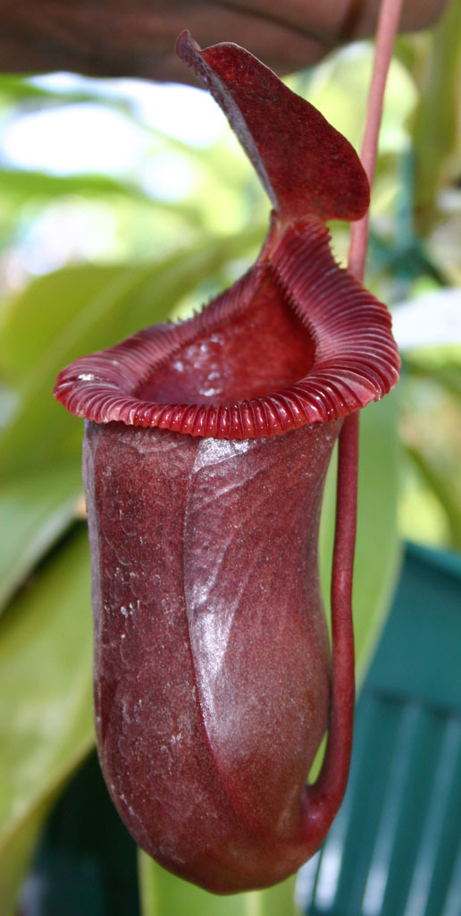 N. ventricoas x (N. lowii x N. macrophylla) = N. ventricosa x [N. x trusmadiensis]